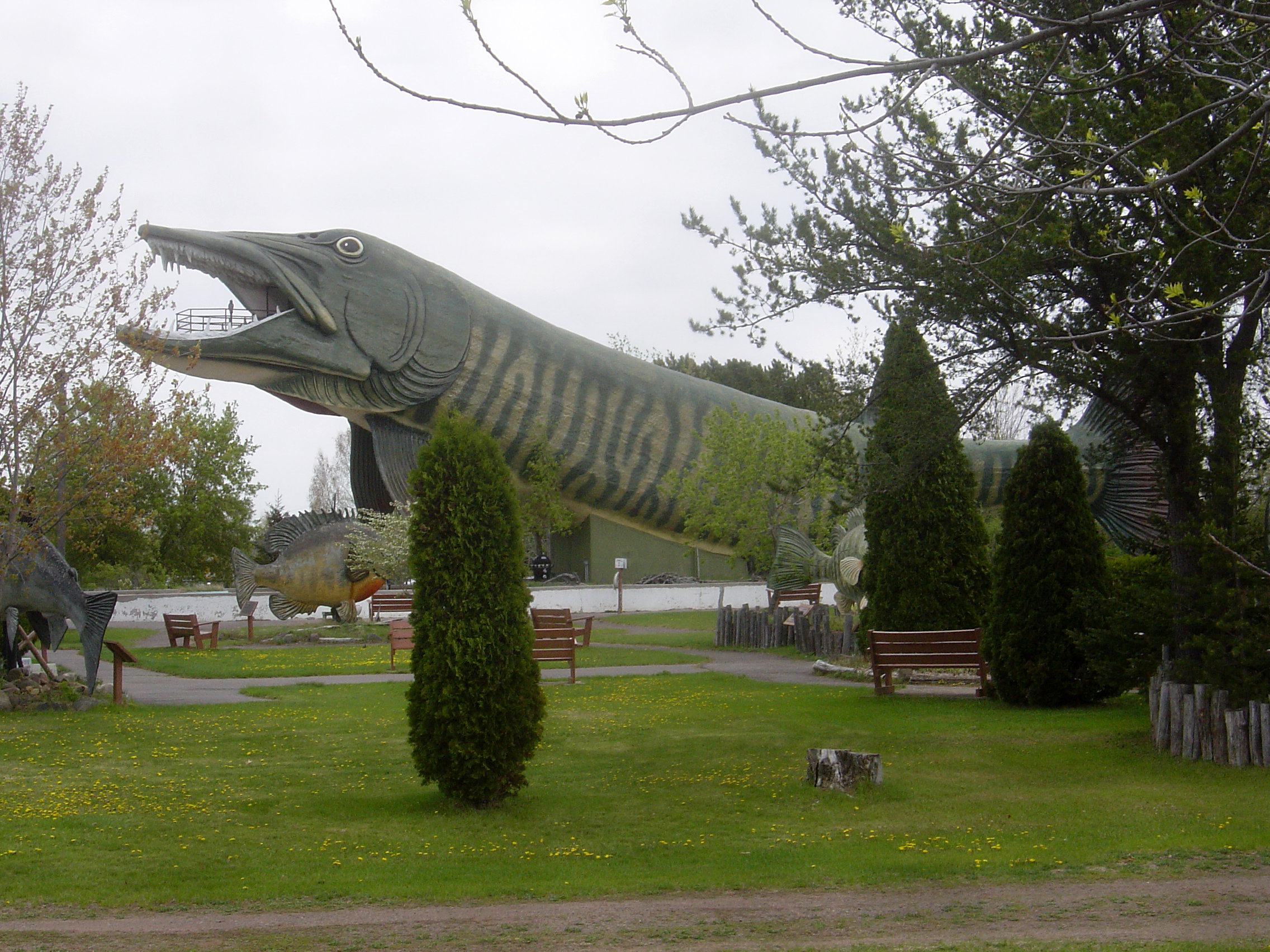 The famous 143 feet long, 4 1/2 story high muskie that dominates the National Freshwater Fishing Hall of Fame in Hayward, Wisconsin, U.S. Yes, there is an observation deck in the mouth of the fiberglass structure.